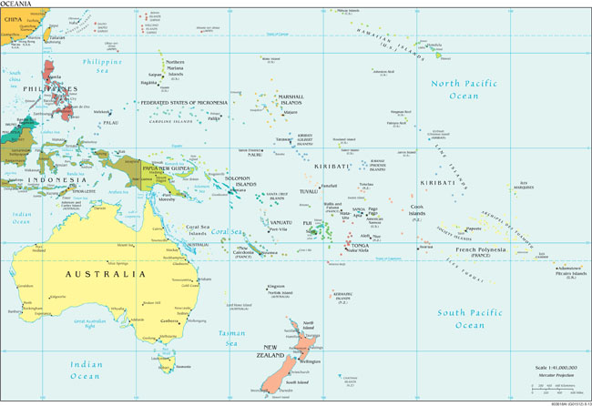 "Political Oceania" map from the CIA World Factbook website.